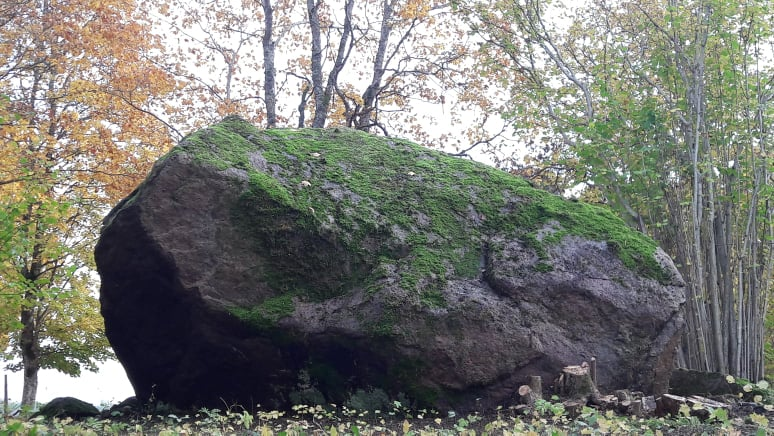 Passi kivi